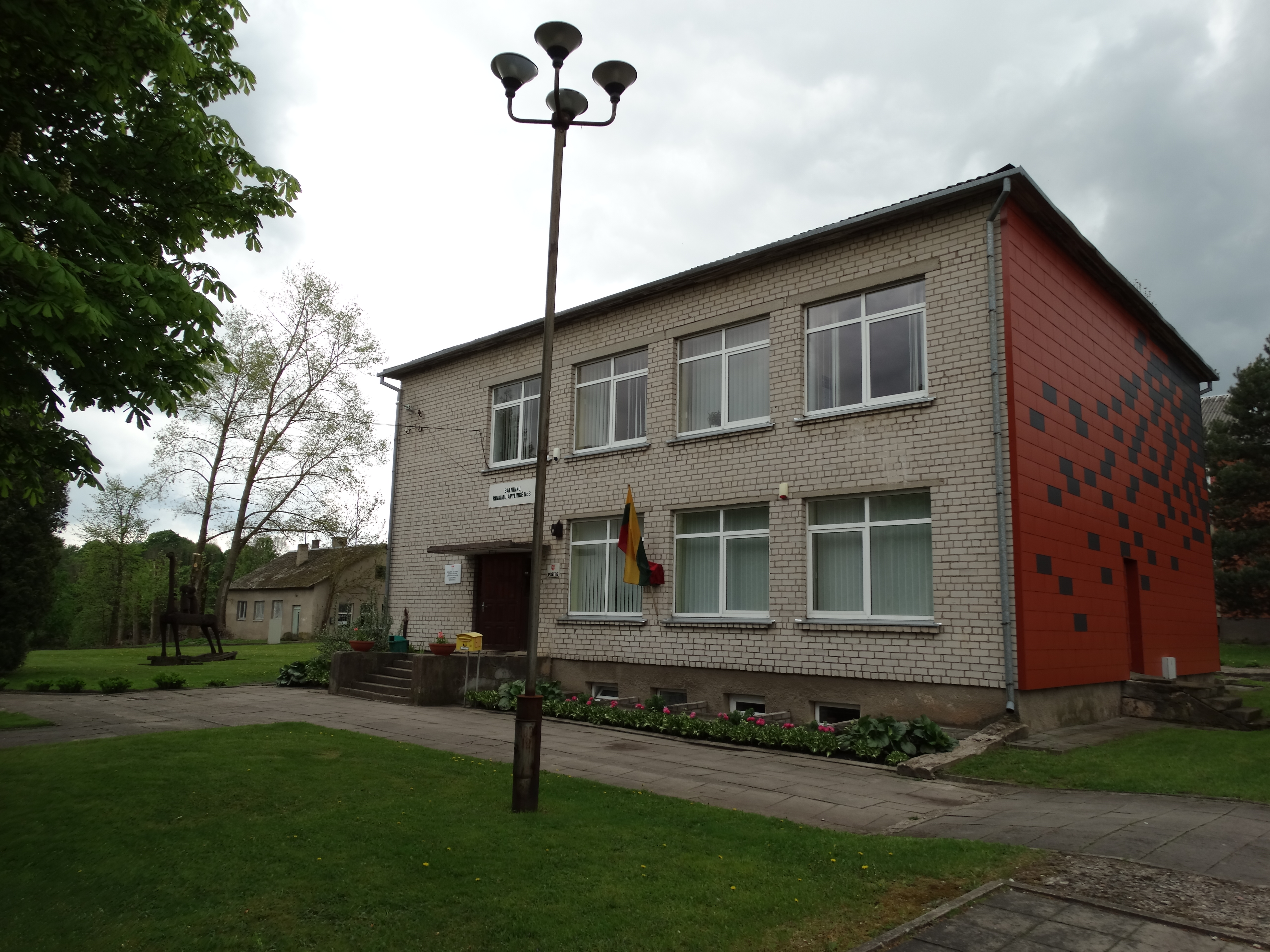 Eldership, Balninkai, Molėtai district, Lithuania